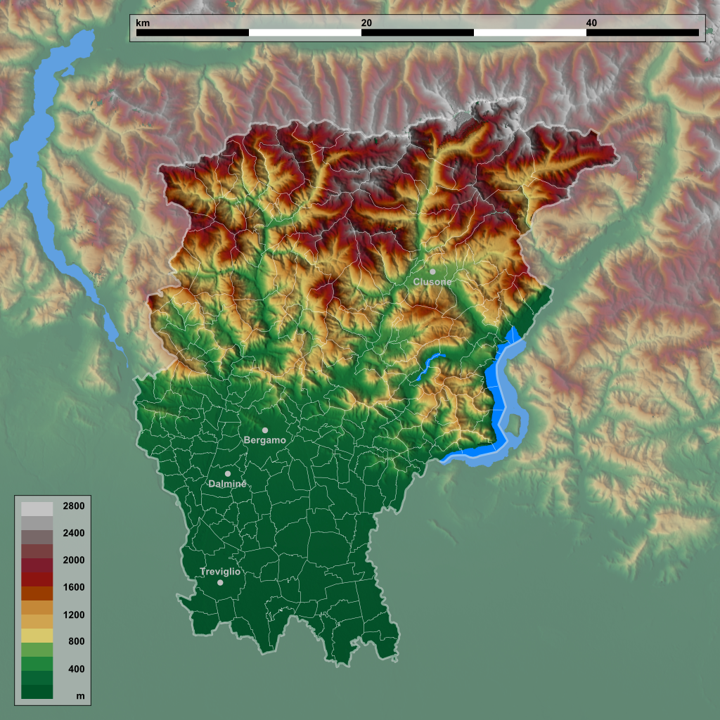 Physical map of the Province of Bergamo, Lombardy, Italy